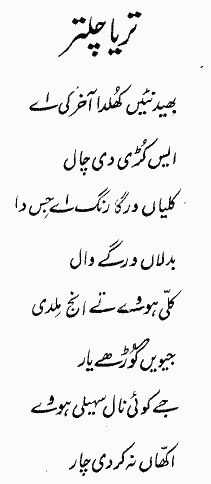 a beutiful piece of punjabi poetry